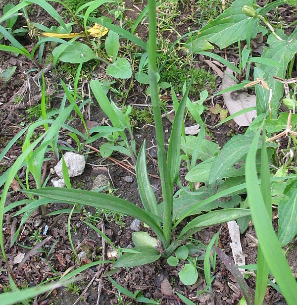 Photograph of Spiranthes sinensis, taken in Tama city, Tokyo, Japan.